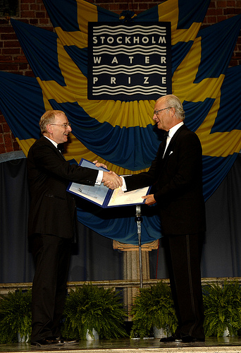 H.M. King Carl XVI Gustaf of Sweden presented the 2012 Stockholm Water Prize to the International Water Management Institute (IWMI) at a Royal Ceremony held in Stockholm City Hall. photo credit: Cecilia Österberg/Exray